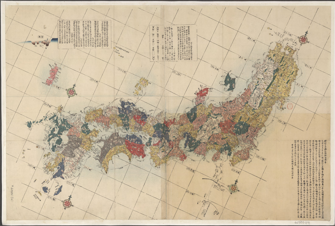 Sekisui Nagakubo "Kaisei Nihon Yochi Rotei Zenzu (1846, British Museum)、In 1779, the first edition was published in Osaka